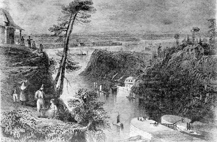 Copy of Bartlett? engraving of Rideau Canal Locks at Bytown